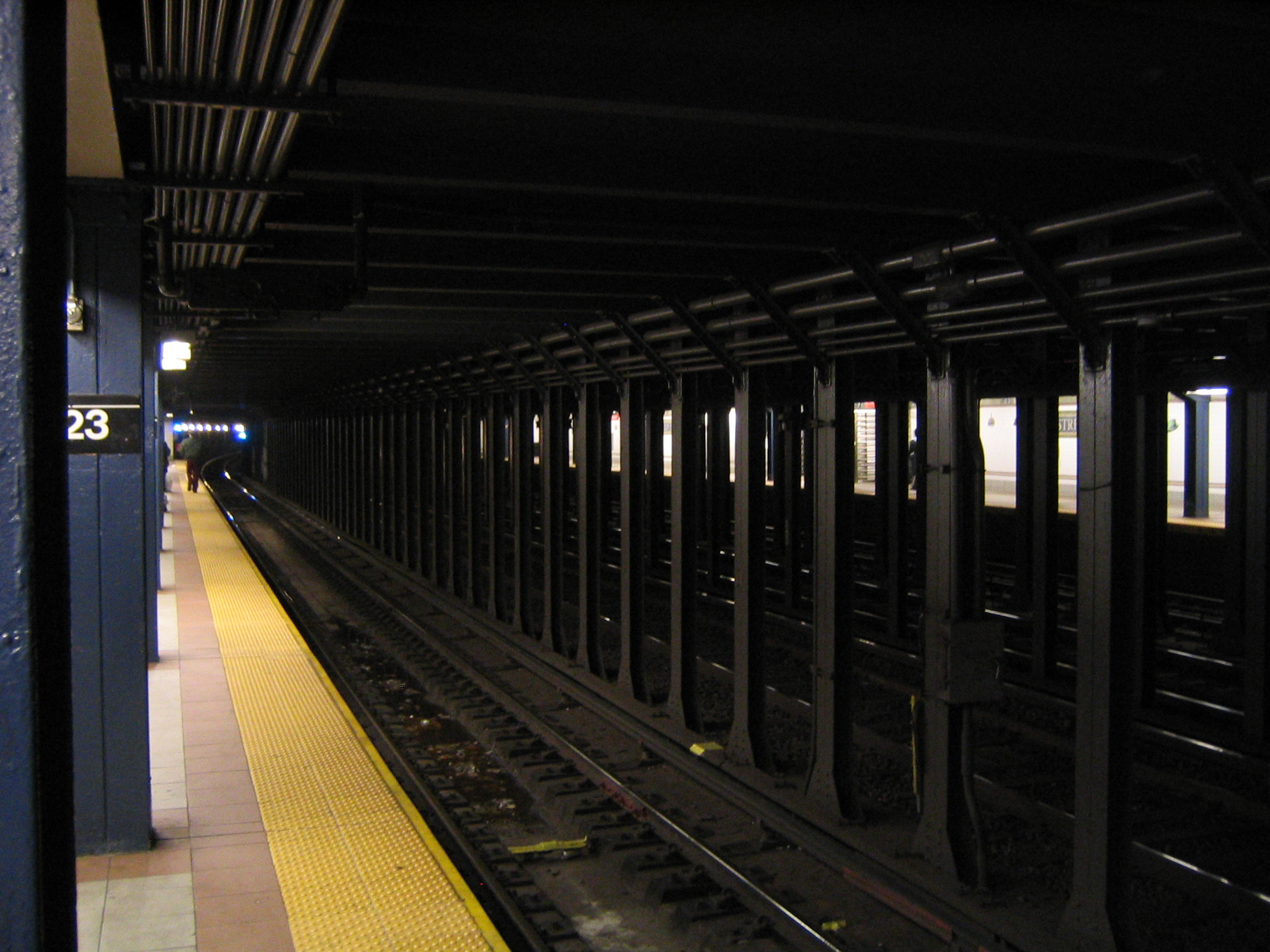 23rd Street station on the BMT Broadway Line of the New York City Subway. This so-called local station is situated on a four-track line and is only served by local trains using the outer tracks and stopping at the two side platforms. Express trains use the inner tracks and pass the station without a halt. That kind of arrangement had already been used when the very first subway lines were built under the streets of Manhattan and is therefore a kind of “standard layout”.